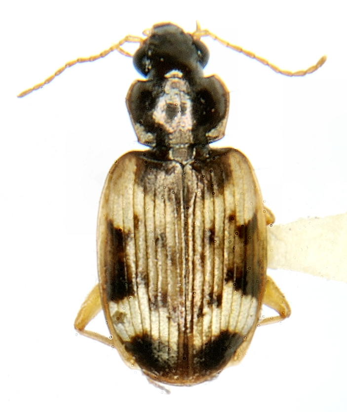 Specimen of a carabid beetle, Tetragonoderus fasciatus Haldeman, collected in USA: Connecticut: Wallingford, 24-Oct-1996, on wet sand of floodplain of Quinnipiac River by Community Lake, collector W.L. Krinsky, in collection of M.K. Oliver. This rare ground beetle is deemed a species of Special Concern in Connecticut. Length (head + body) ~4.5 mm.